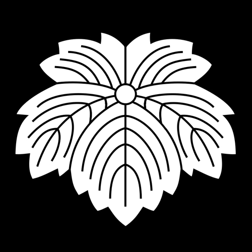 Japanese family crest "Oni-Zuta", Tsuta (Japanese ivy) leaf of sharp-teethed margin (Oni, literally demon or devil).